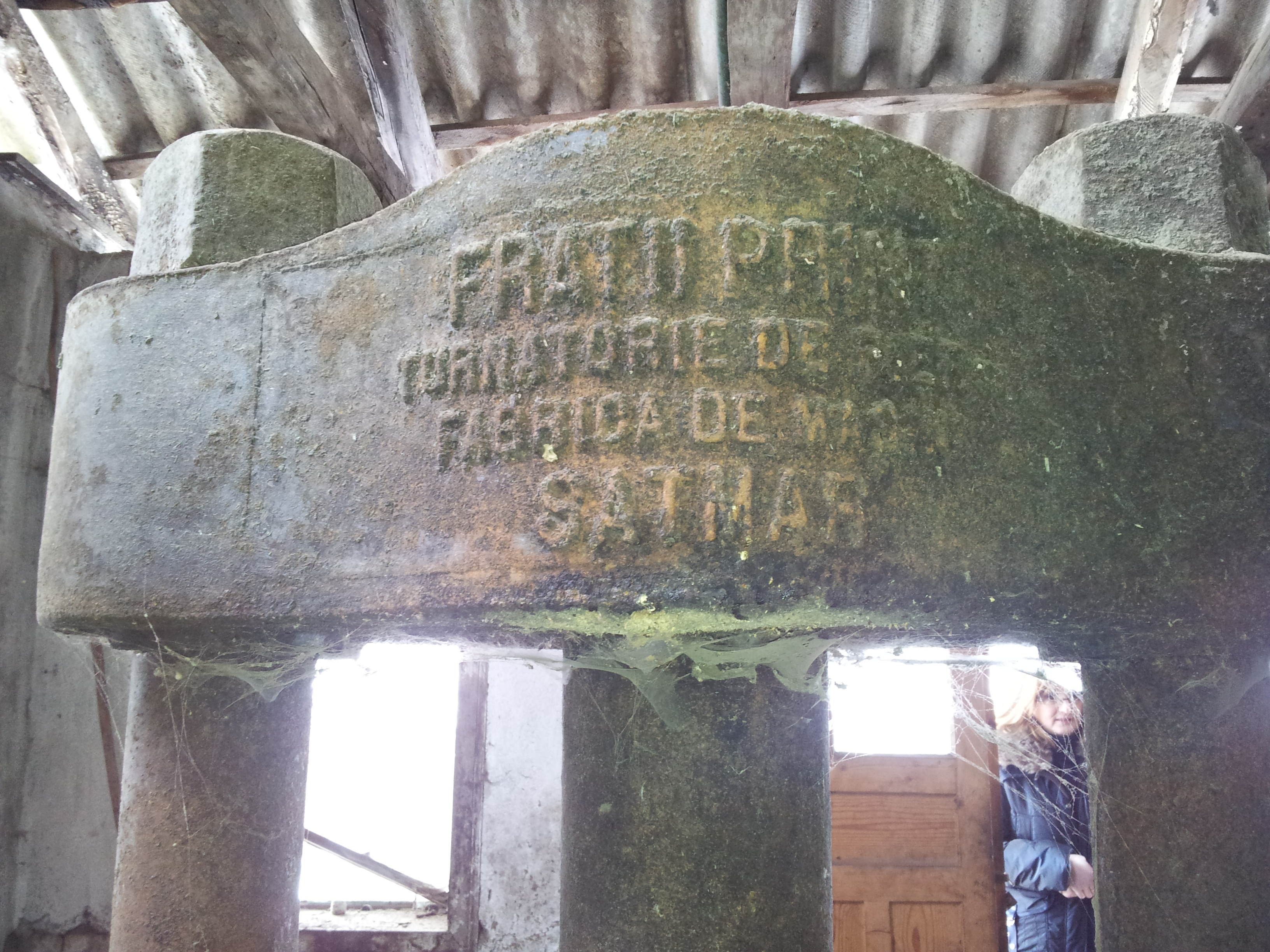 Original Romanian name of Szatmánémeti, translated from the Hungarian version: Satmar.